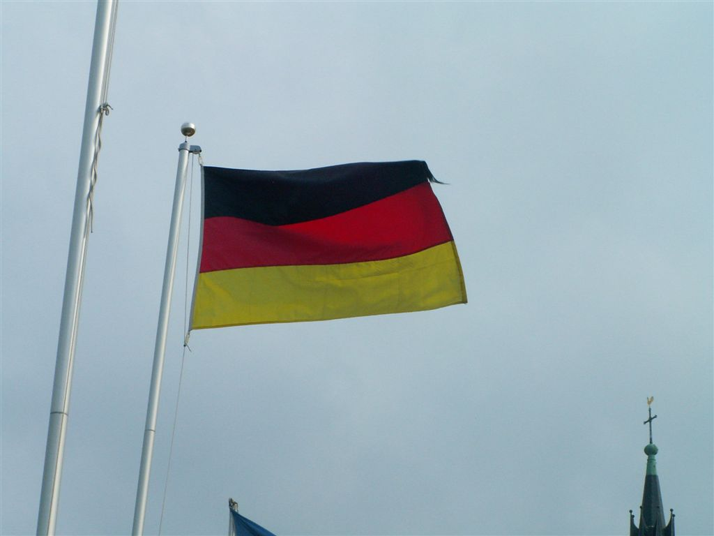 Flag of Germany